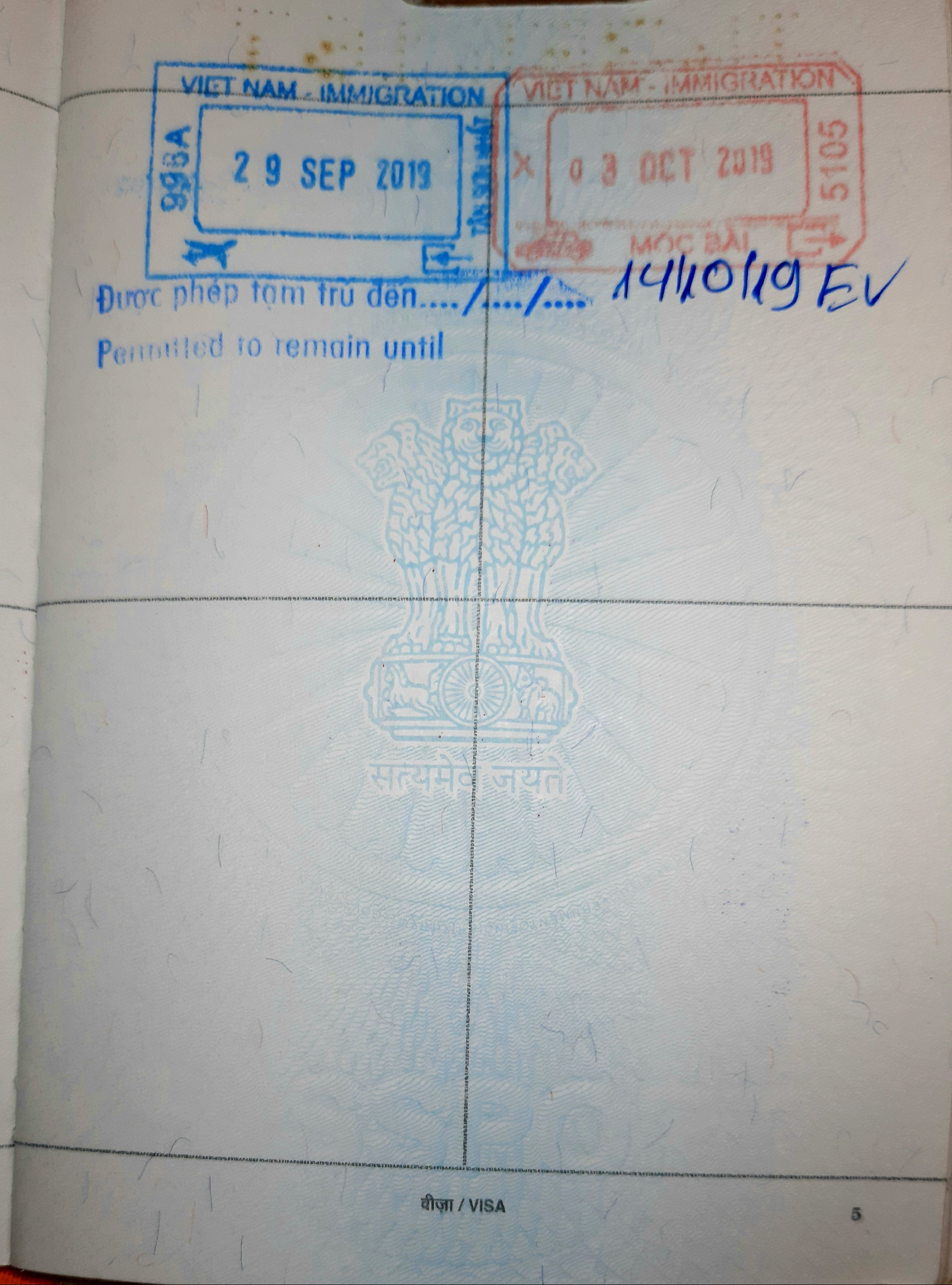 Vietnam E Visa Stamp on Indian Passport at HCMC airport.